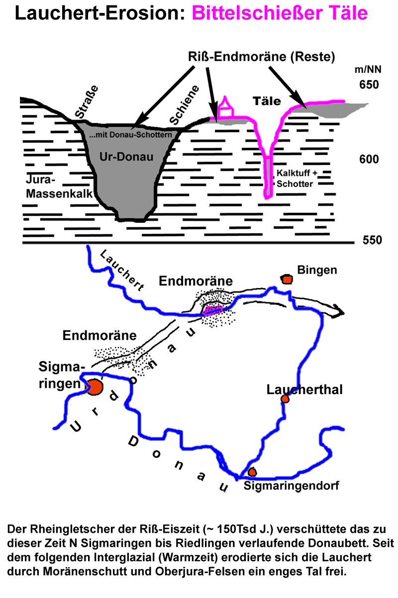 Extraordinary morphology of the landform of lower river Lauchert around the geotope "Bittelschießer Täle", Swabian Alb.From the end of the Mindel-Eiszeit (German), ~ 0,900Ma, the Upper Danube transitionally used and deepened the river bed of the Lauchert, until, in the mid Riß-Eiszeit (German), ~ 0,150Ma, the Rhine Glacier advanced twice, dammed up and blocked the Danube and the Lauchert, filled the Danube bed and packed the terrain with moraines.In the next interglacial the Lauchert eroded the moraine debris and then cut a new canyon into a massive limestone, rather than reusing its former bed right next to it.The Danube carved itself a new bed further south.